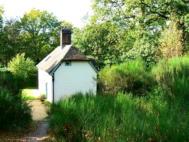 Clouds Hill, Dorset